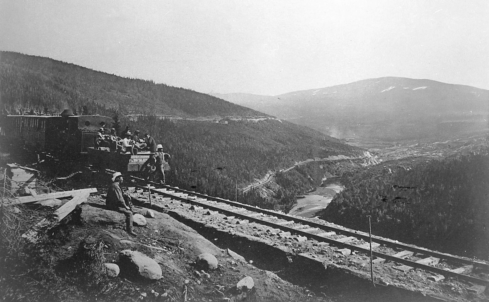 Railway Director Carl Abraham Pihl in front of an inspection train under the construction of the Røros Line in Norway, near Holtaalen.